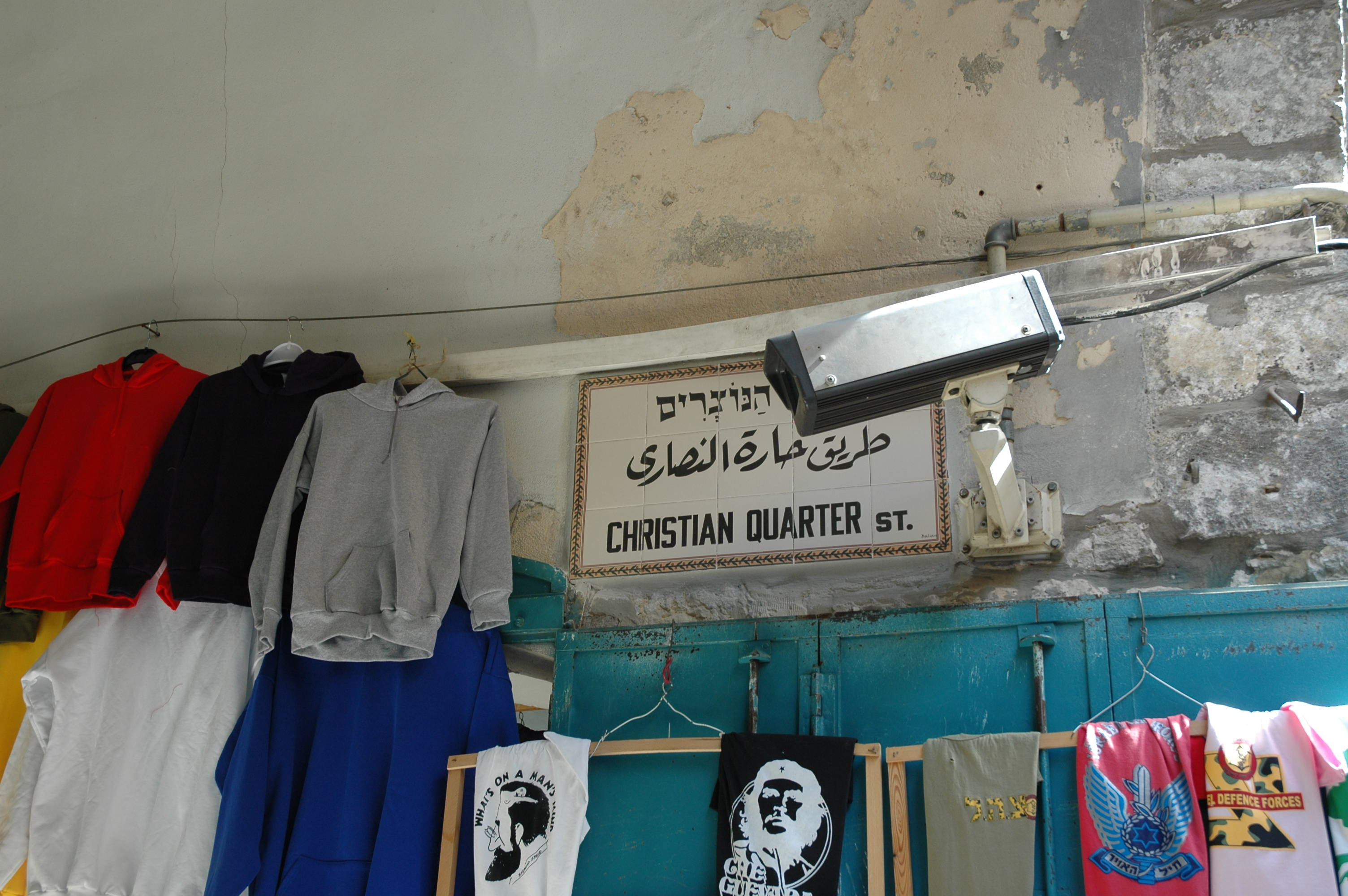 Christian Quarter road, at the corner with David street Israel